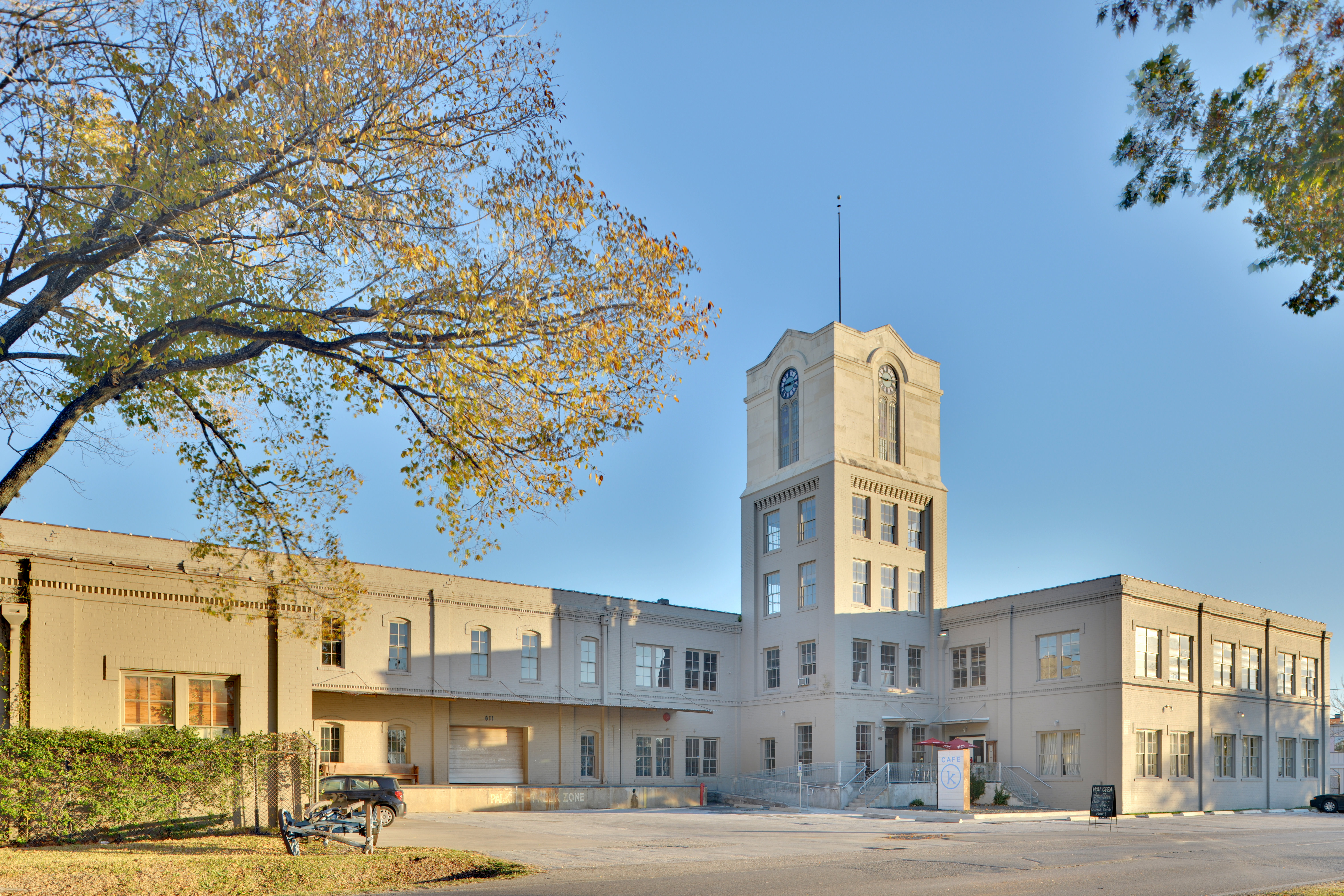 The Oriental Textile Mill, 2201 Lawrence St., Houston (Texas, USA) is listed in the National Register of Historic Places, United States Department of the Interior.